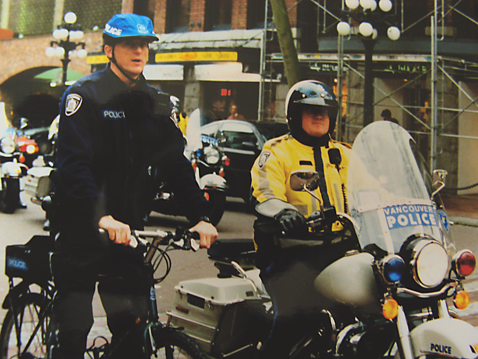 Vancouver Police on bikes. Photo taken by Bobanny